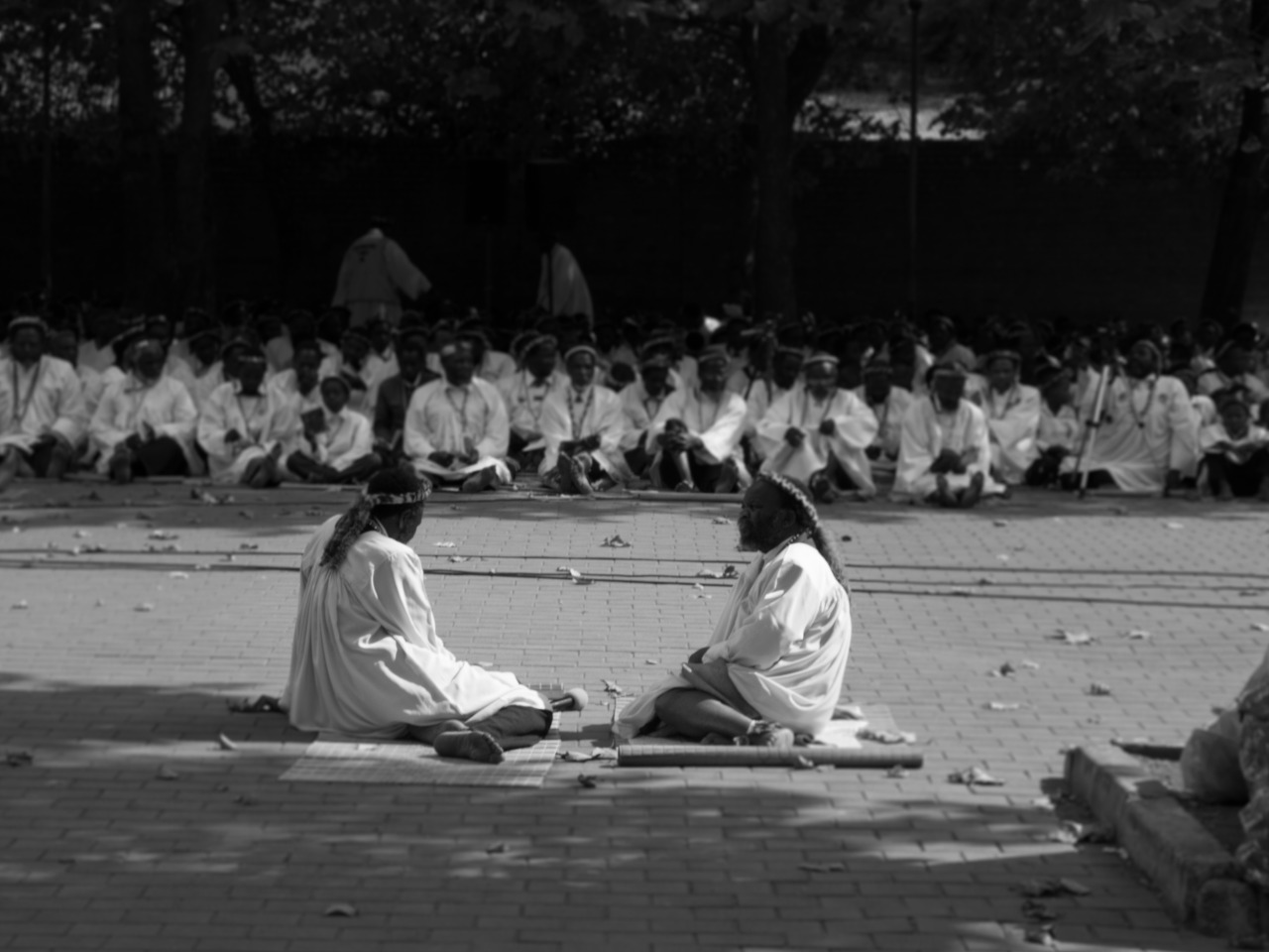 This is an image with the theme "Africa on the Move or Transport" from: South Africa